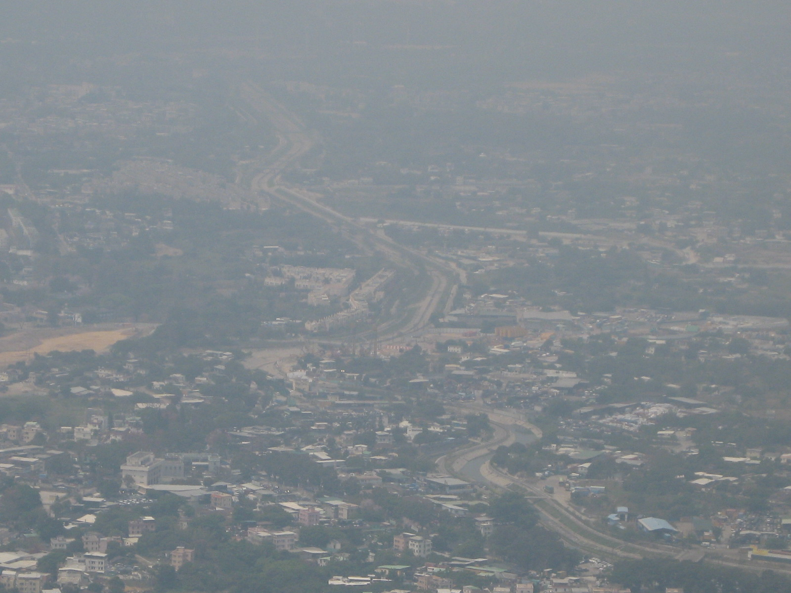 Kam Tin River from Tai To Yan